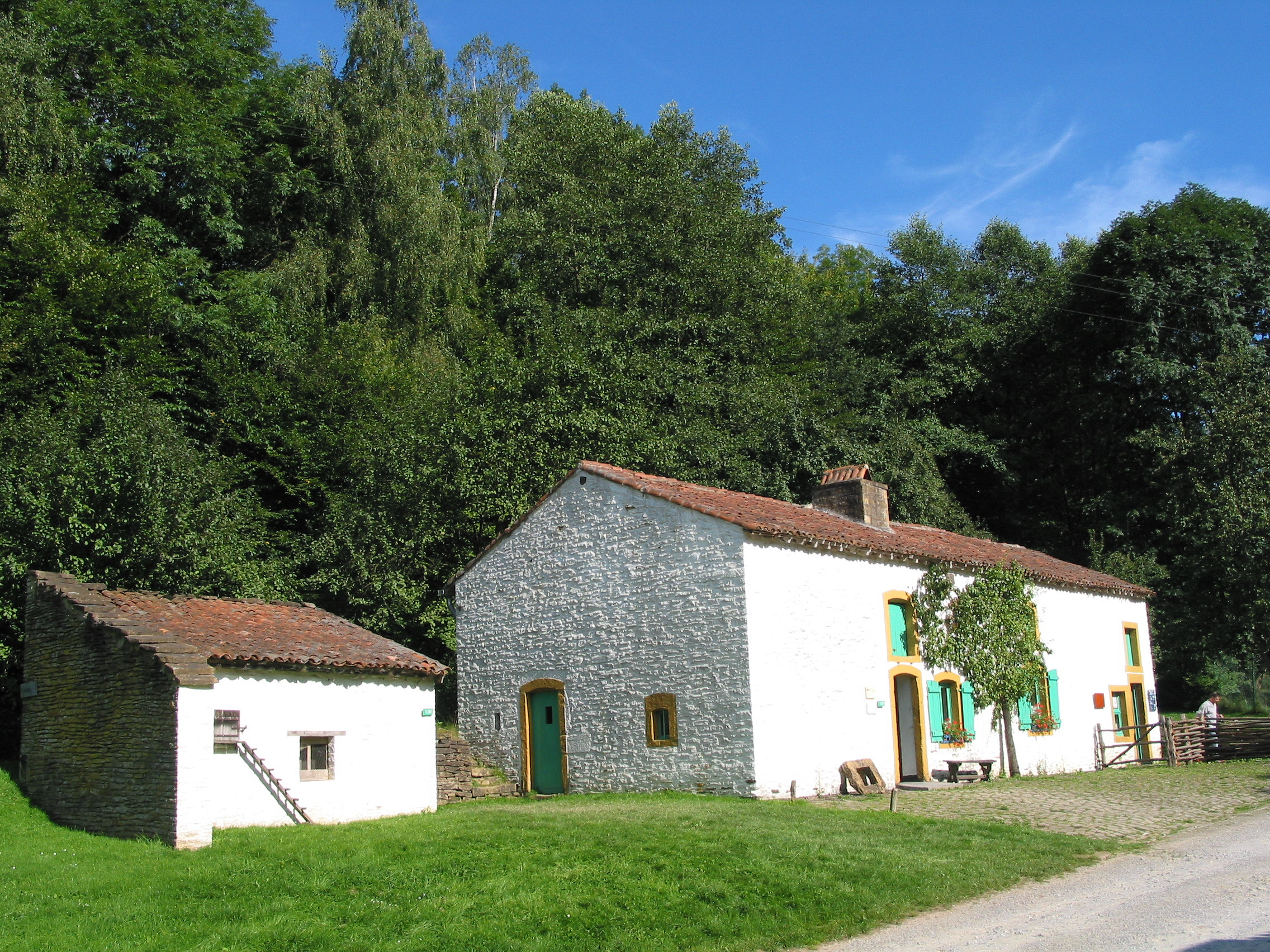 Saint-Hubert (Belgium): St. Michael's Furnace property – Museum of Country Life in Wallonia – Worker cottage of the Lorraine area (Bleid, 19th century).